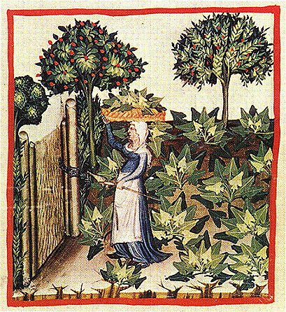 Spinach (Spinachie) Nature: Cold and humid in the first degree, of moderate warmth at other times. Optimum: Those leaves still wet with rain water. Usefulness: They are good for a cough and for the chest. Dangers: They disturb the digestion. Neutralization of the Dangers: Fried with salted water, or with vinegar and aromatic herbs. Effects: Moderately nourishing. They are good for warm temperaments, for the young, at all times, and in every region. From the Tacuinum of Vienna